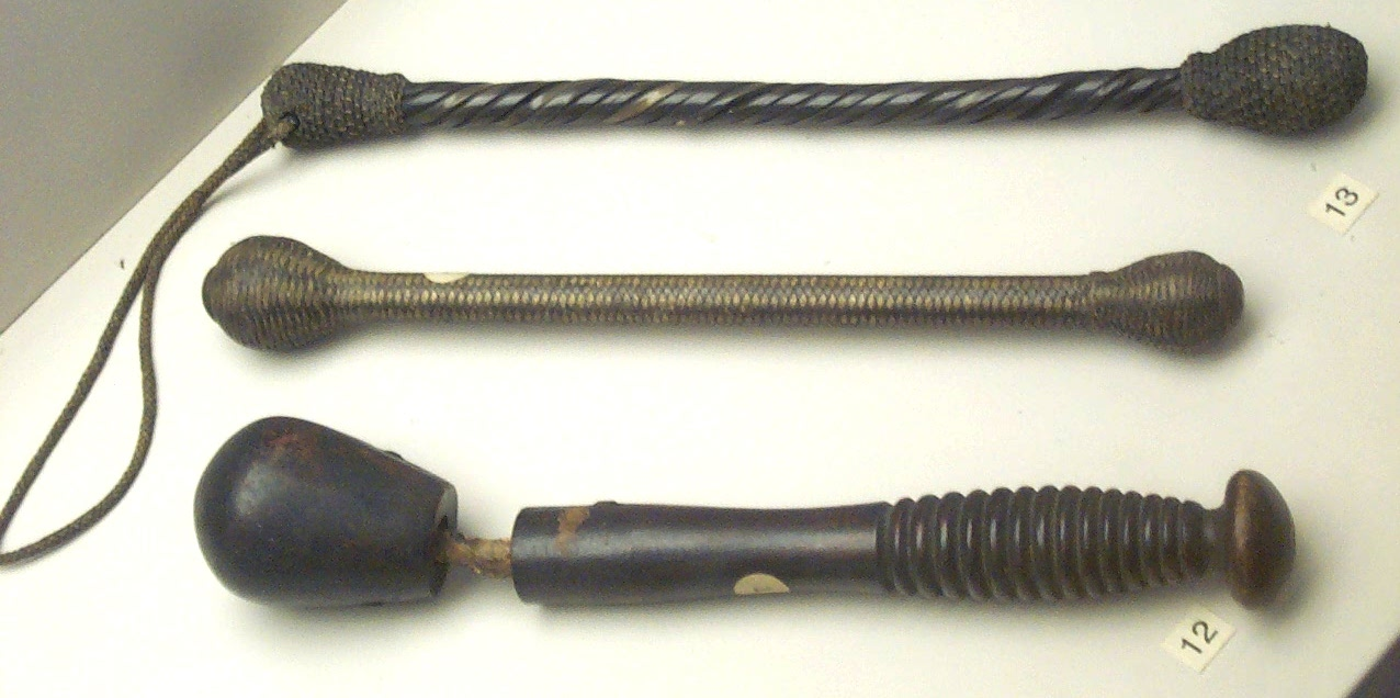 Coshes and bludgeon. Two coshes or "life preservers" of whalebone and lead, plus a bludgeon or hinged truncheon.